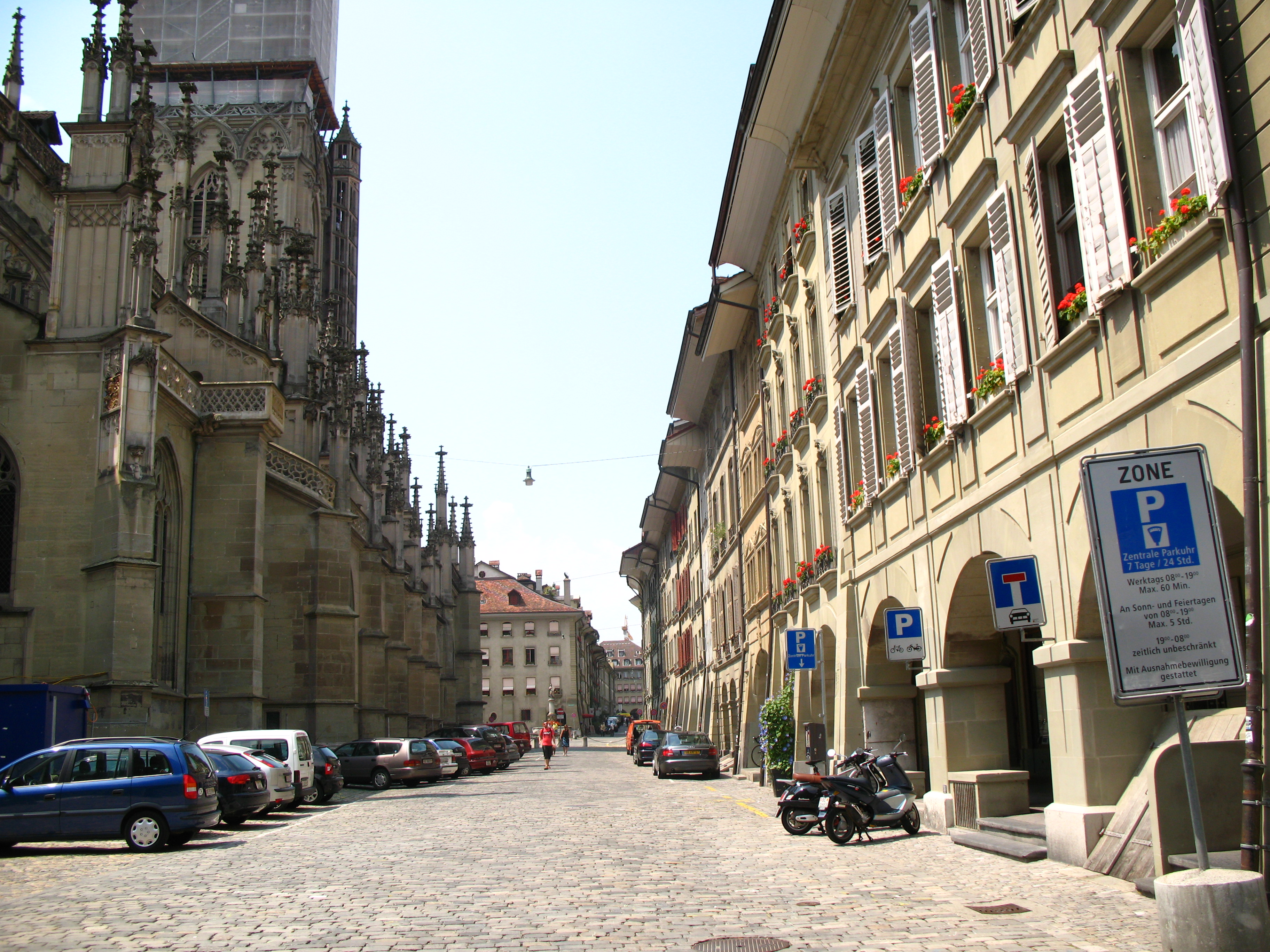 Cathedral Lane, Berne, Switzerland